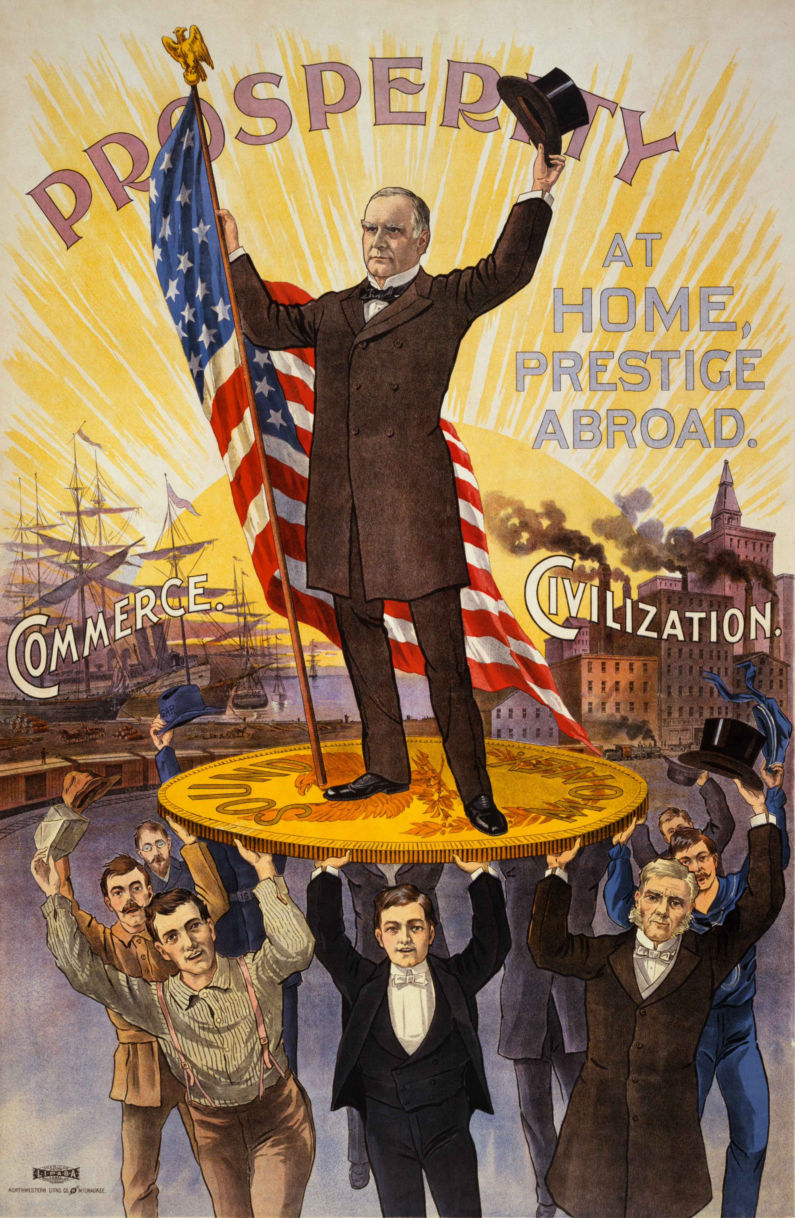 Campaign poster showing William McKinley holding U.S. flag and standing on gold coin "sound money", held up by group of men, in front of ships "commerce" and factories "civilization".